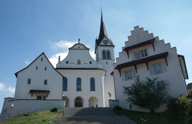 Church St. Martin of Hochdorf